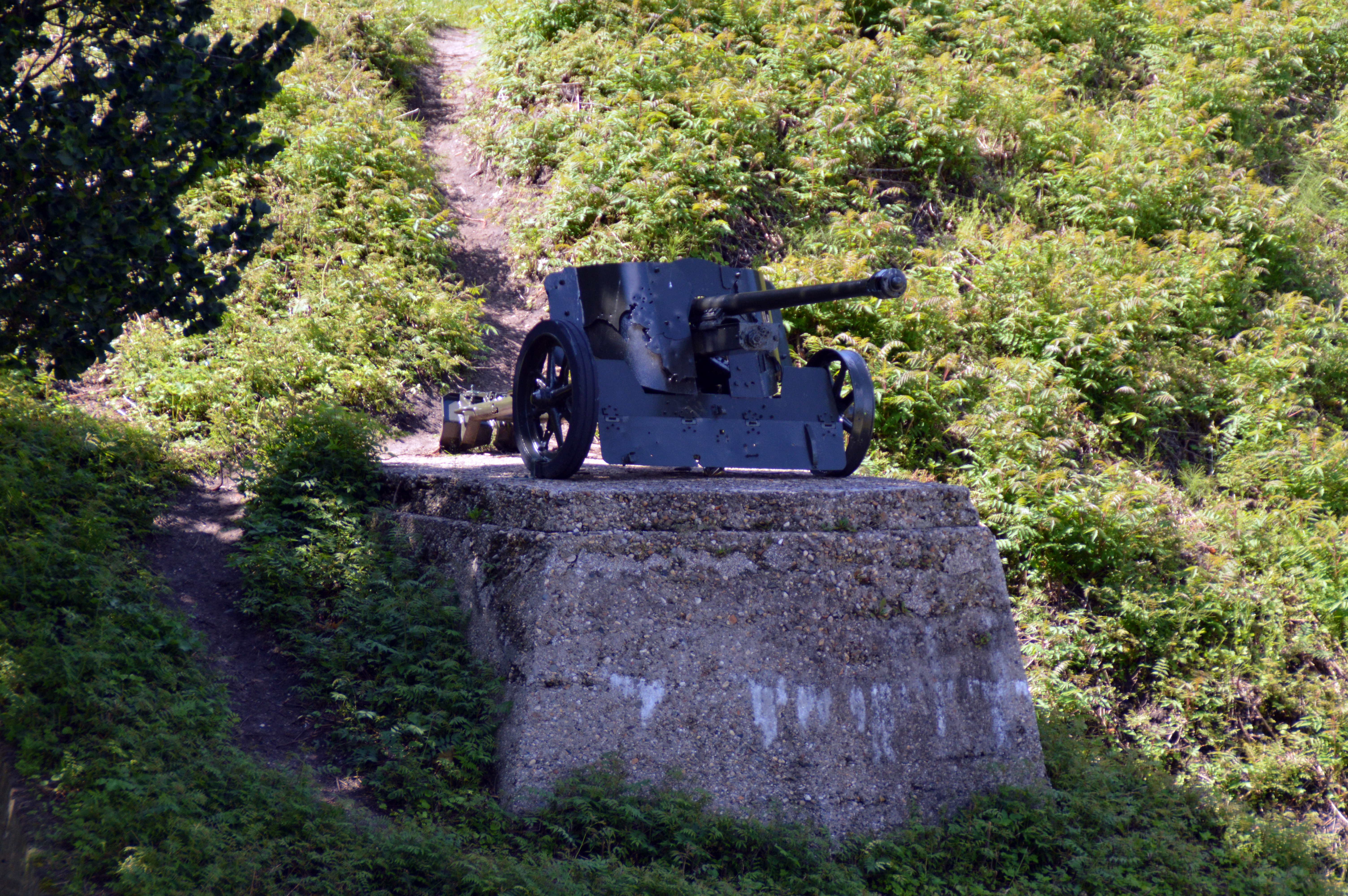 50mm PAK 38 Panzerabwehrkanone 5 cm Pak 38 Battle of Nijmegen Hunnerpark Second World War